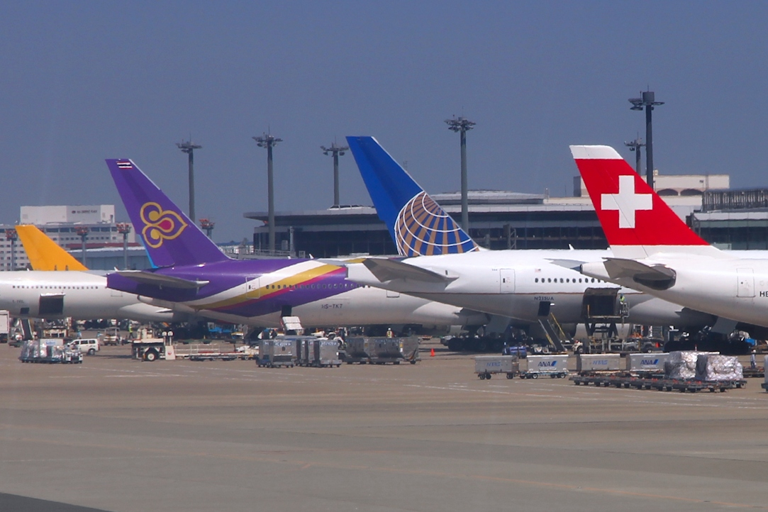 Multiple airlines' aircraft together at Narita International Airport, Japan. Swiss International Air Lines, United Airlines, Thai Airways International.